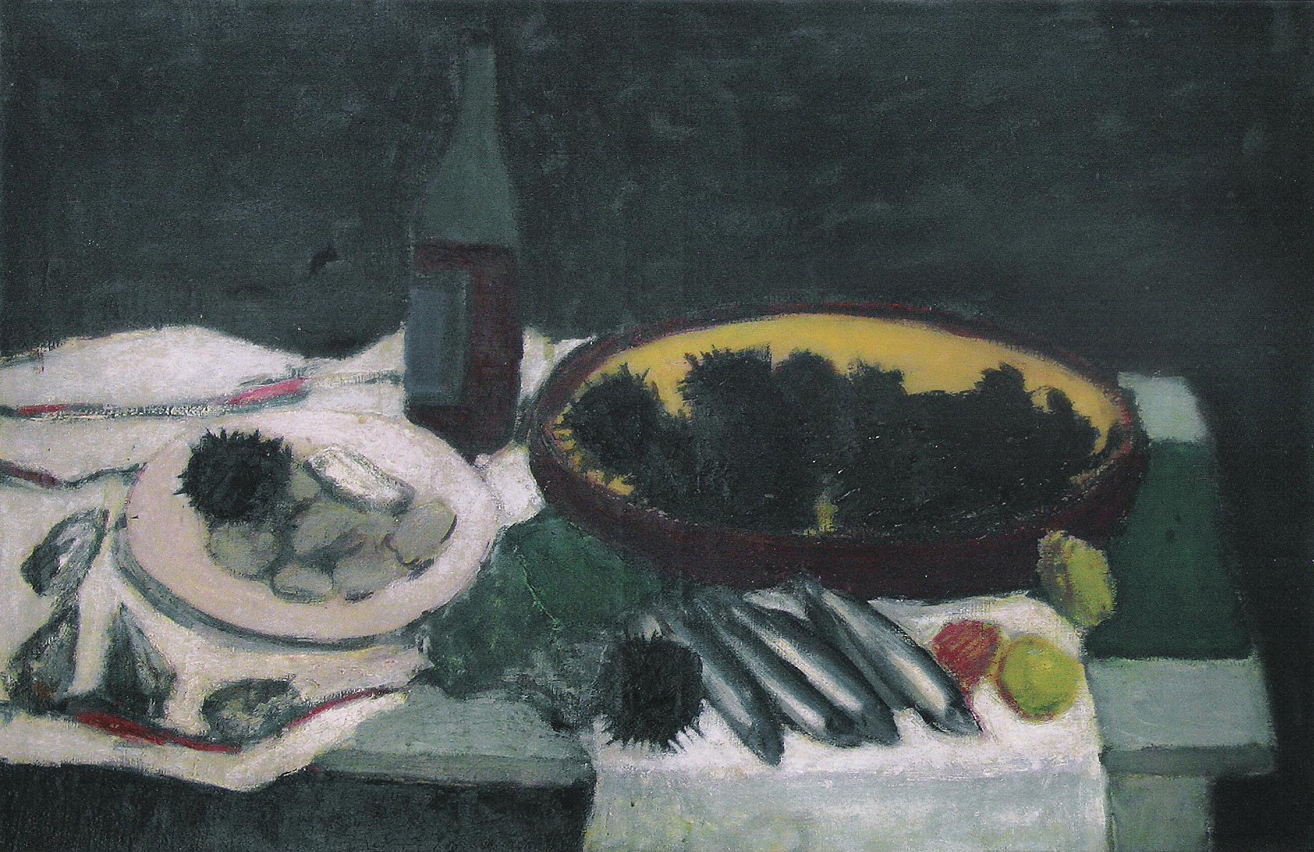 Photographed painting by Thanassis Stephopoulos